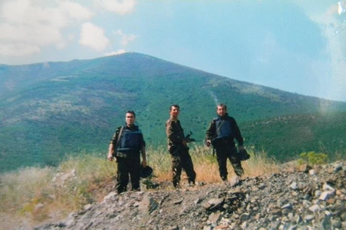 Macedonian police near Radusha, during the Macedonian Conflict in 2001. The police officer in the middle is Aco Stojanovski (Ацо Стојановски), the deputy-commander of the Radusha police station.